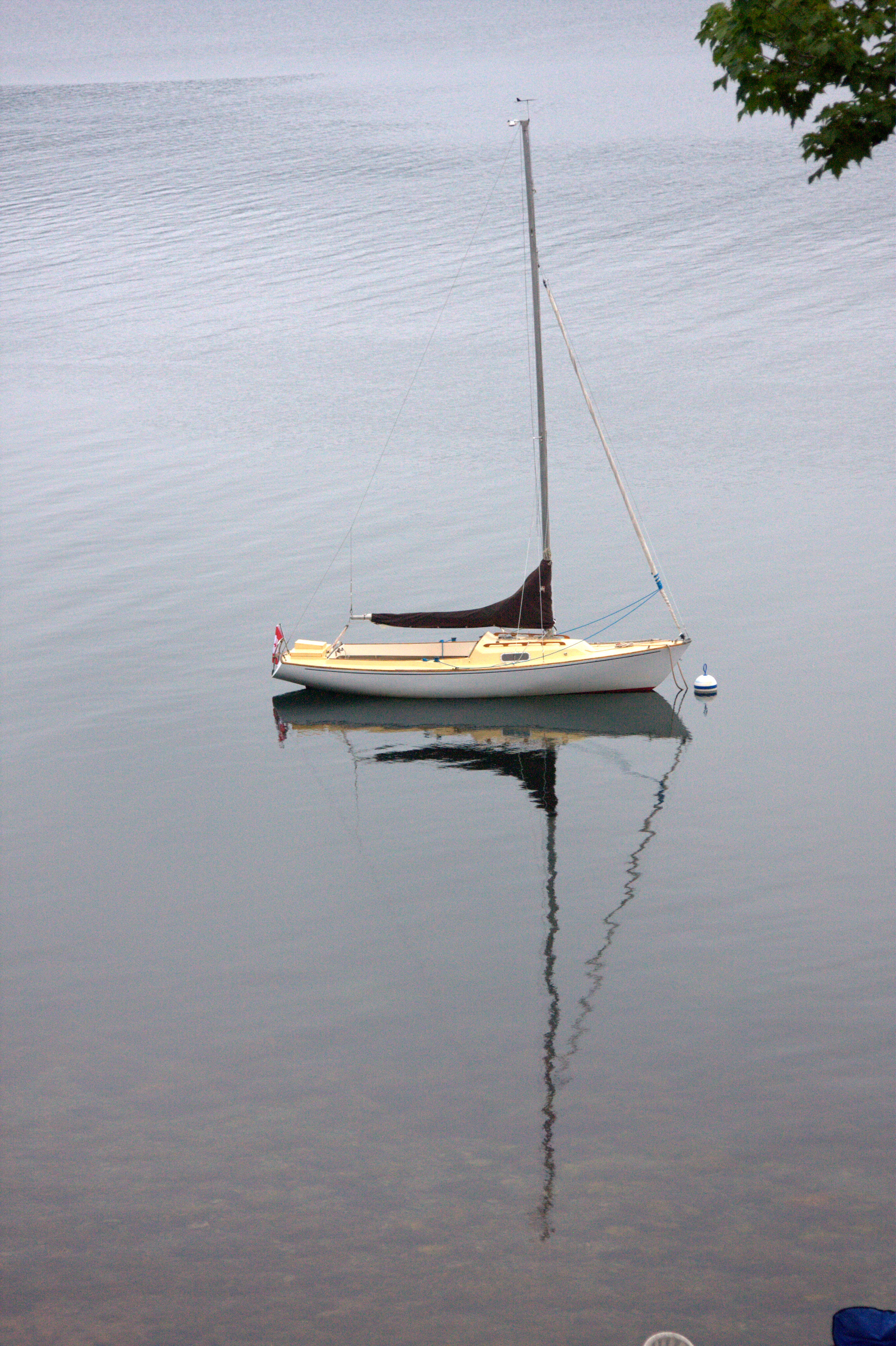 (Paceship) Bluejacket 23 Daysailer sailboat at anchor on the Bras d'Or Lake.